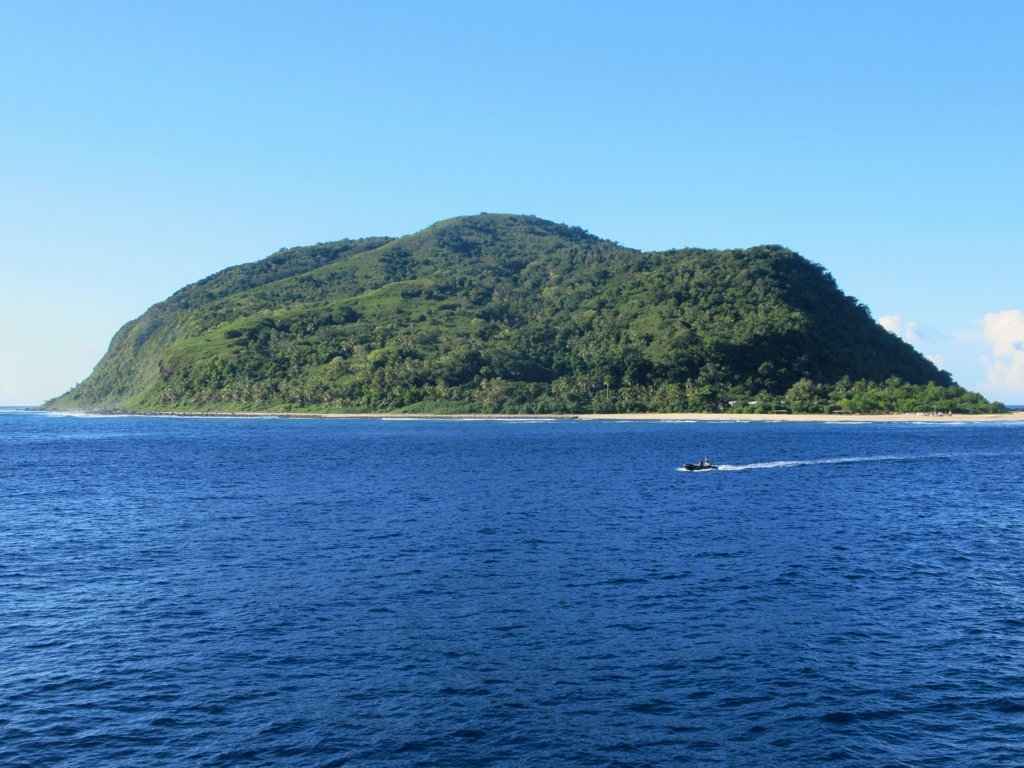 Makura as seen from the northwest.